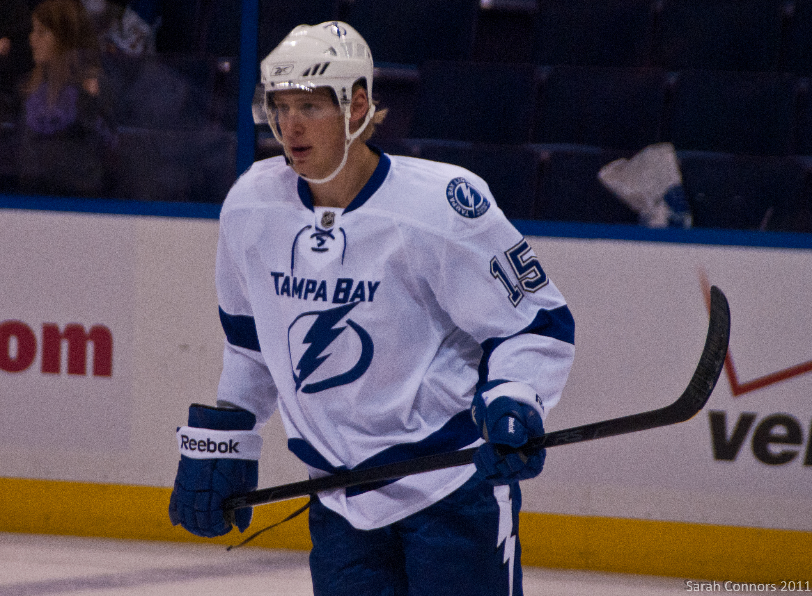 Carter Ashton of the Tampa Bay Lightning